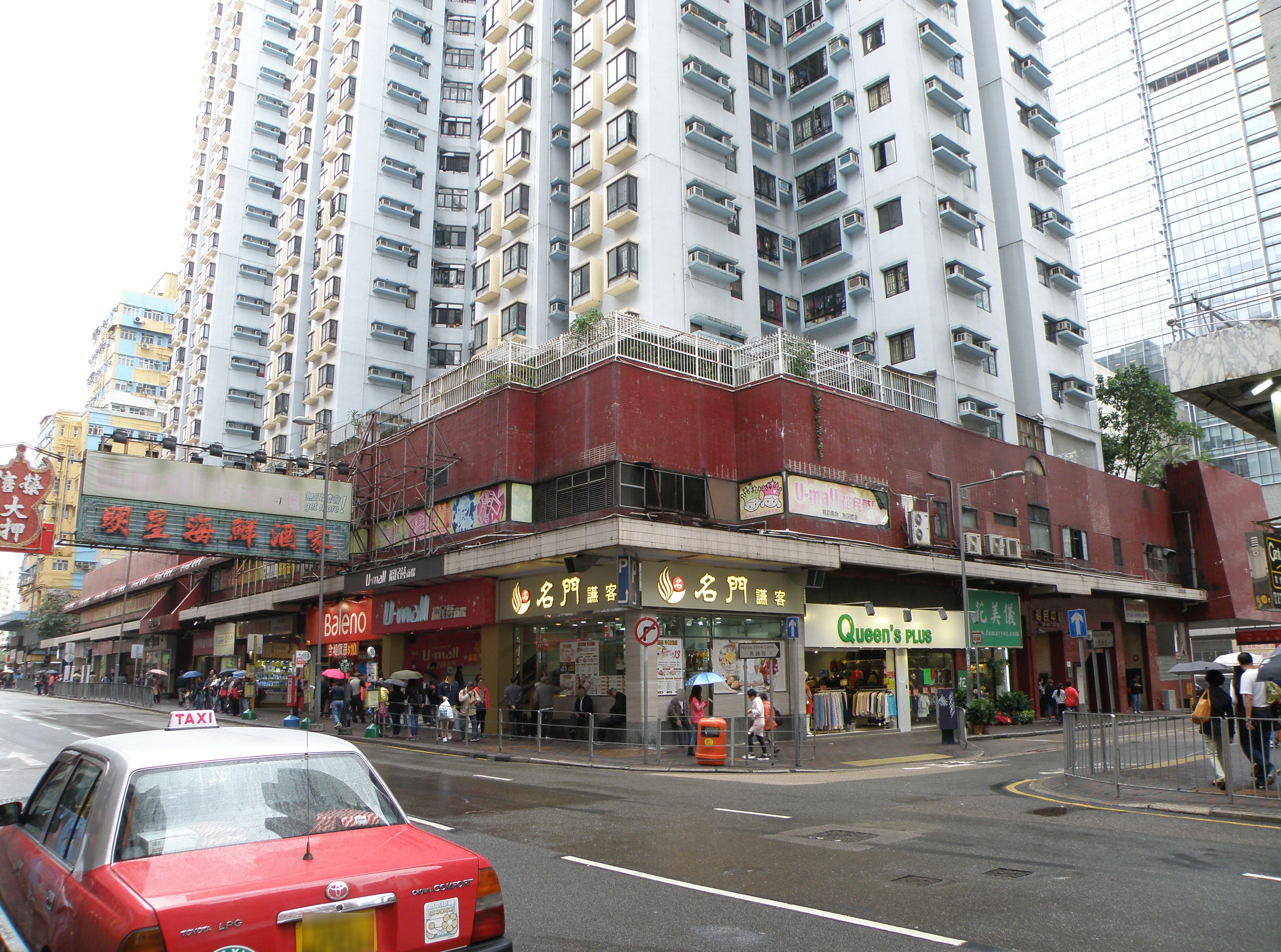 U-mall in Ngau Tau Kok, Hong Kong.